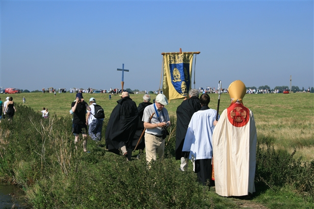 Procession to the St Benet's Annual Service The Bishop of Norwich and entourage en route from the wherry that transported them, to the annual service, held at the wooden cross visible on the right horizon. The service has taken place every year since 1939, except during the 2001 foot-and-mouth outbreak. The cross is made of oak from the Queen's estate at Sandringham, and marks the position of the medieval high altar; it was presented in 1987 and is inscribed with the word "Peace". (Eastern Daily Press feature)